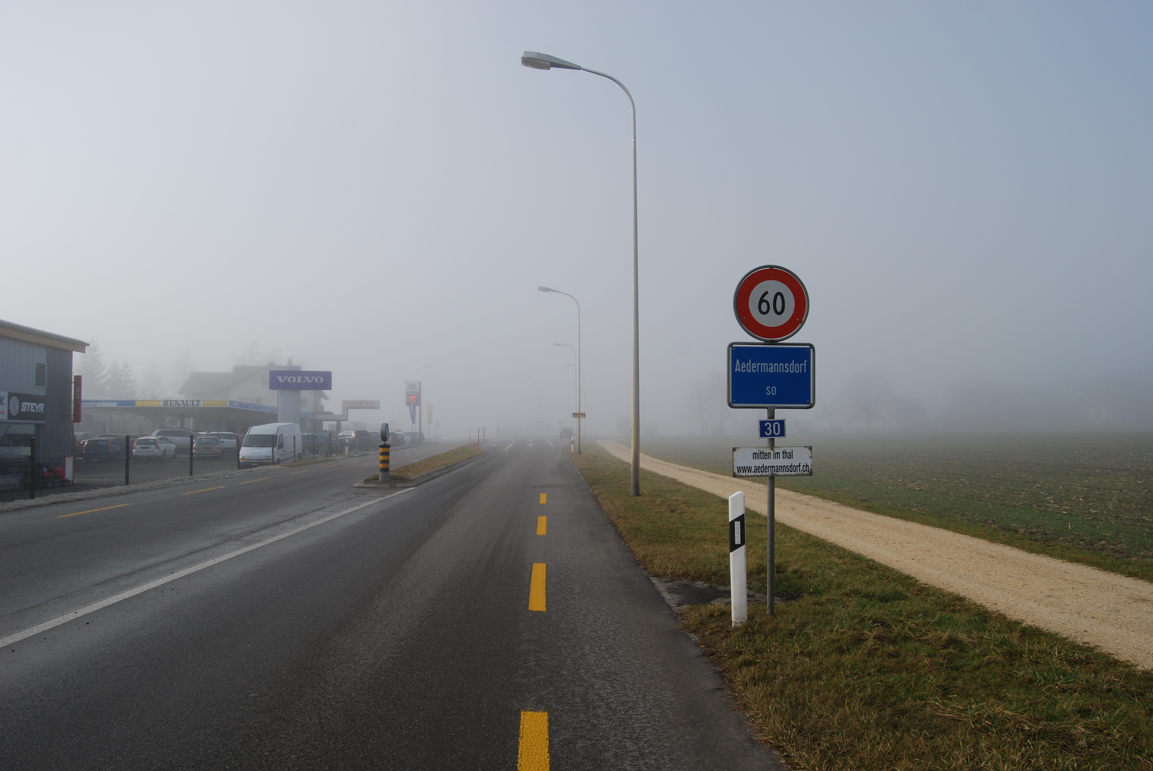 Aedermannsdorf, canton of Solothurn, SwitzerlandEsperanto: Aedermannsdorf, Kantono Soloturno, Svislando